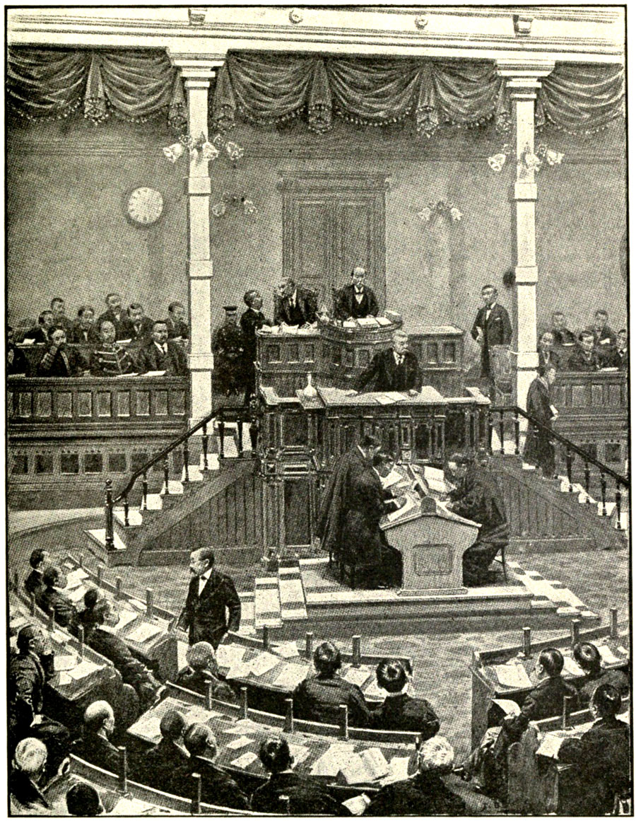 Interior of Japanese Parliament, showing Minister speaking at the tribune from which members address the House